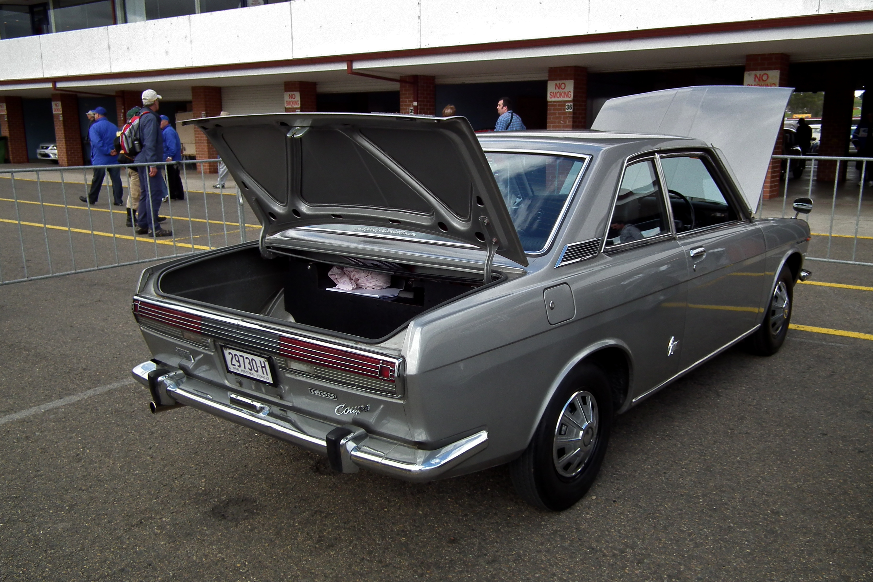 1970 Datsun Bluebird 1600 coupe. Taken at Shannon's Eastern Creek Classic 2011, held at Eastern Creek Raceway Sydney.